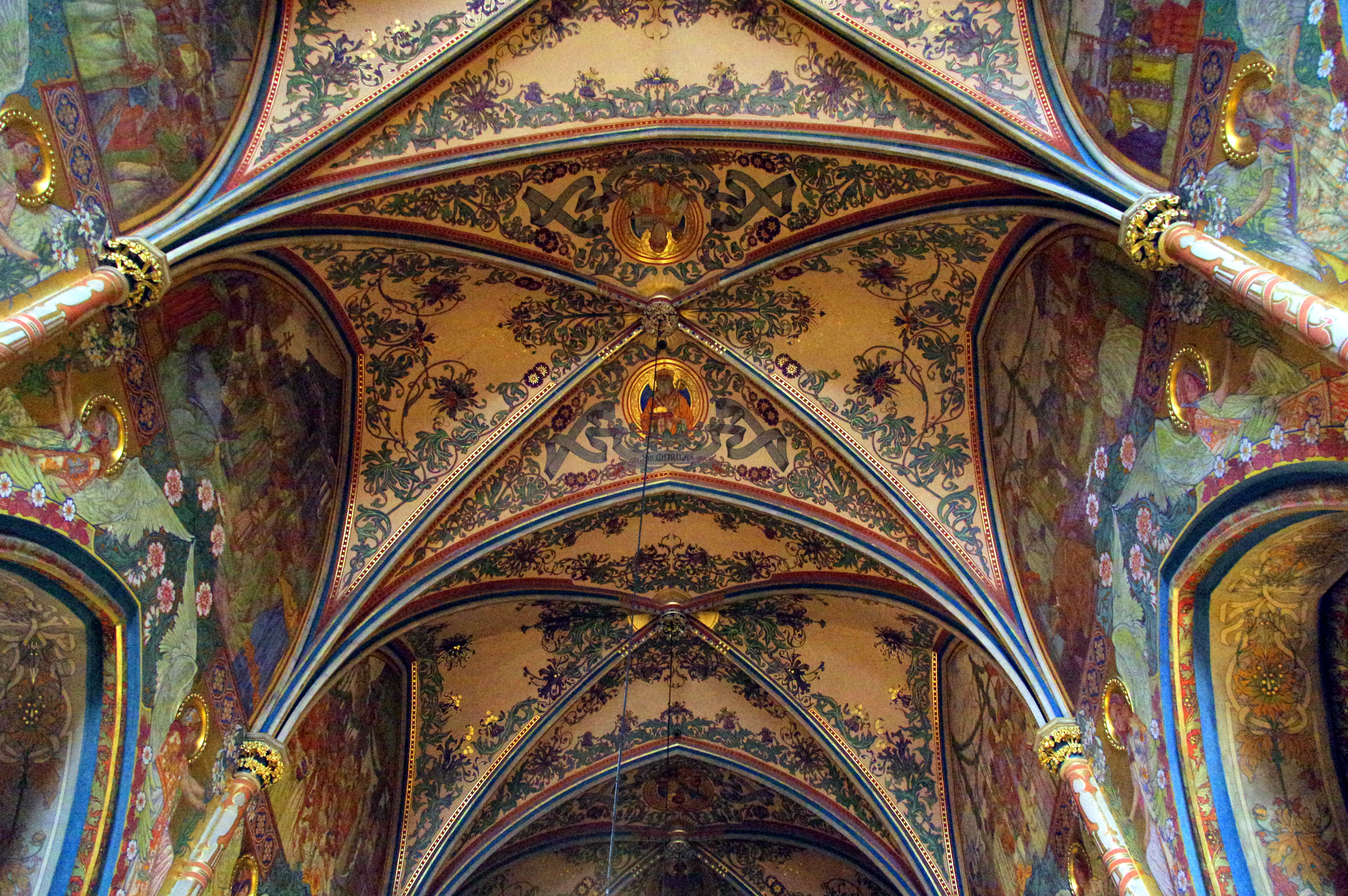 1.9.15 Vysehrad and VyseHratky